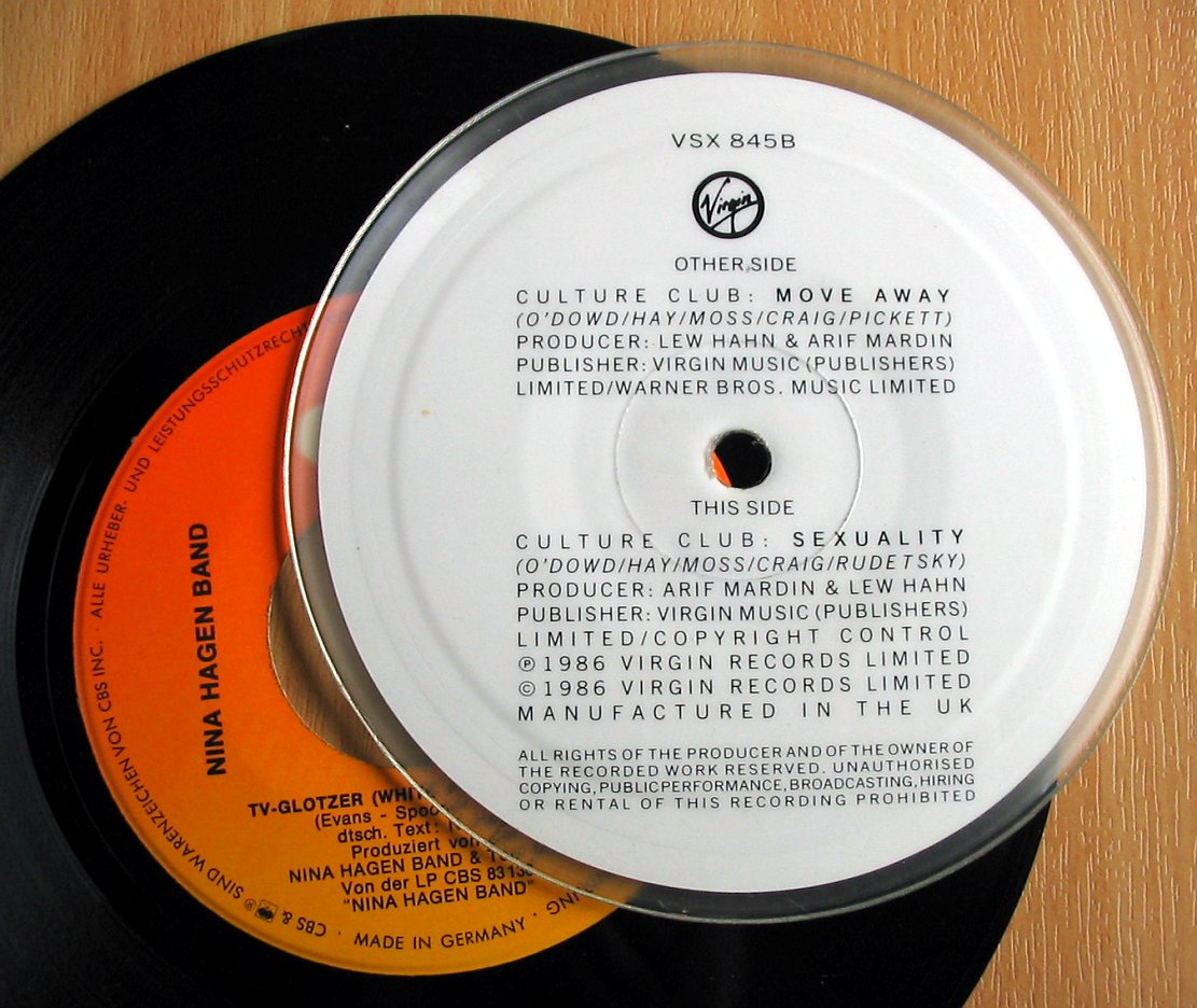 unusual gramophone records - Nina Hagen & Culture Club singles